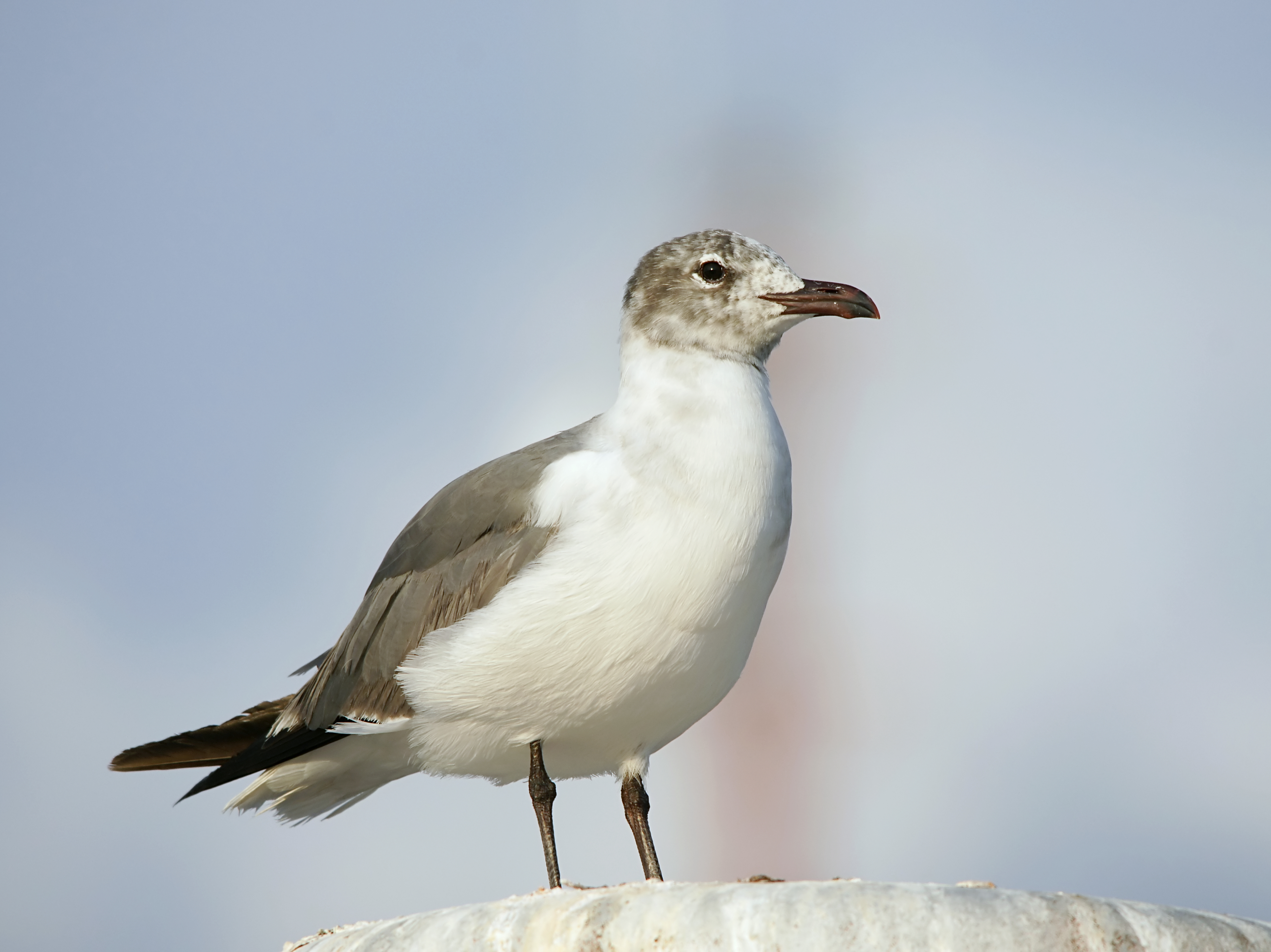 First Summer Laughing Gull at Flamingo in the Everglades National Park in Monroe County, Florida, U.S.A.